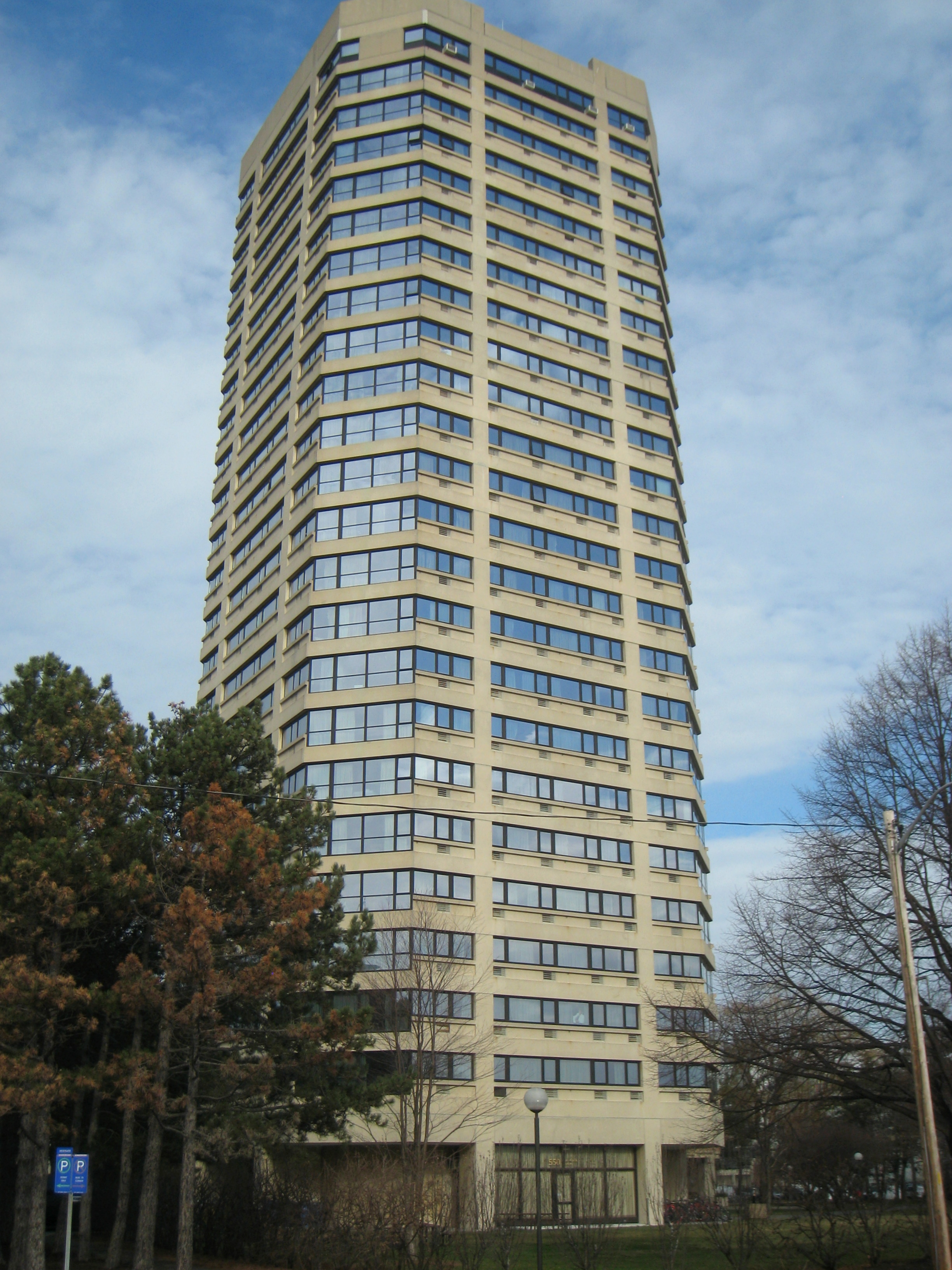 Tang Residence Hall, Massachusetts Institute of Technology, 550 Memorial Drive, Cambridge, Massachusetts, USA. Architect: The Stubbins Associates. Building completed 1972.